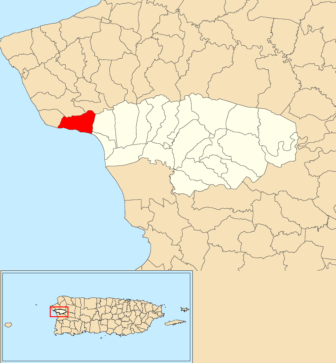 Caguabo, Añasco, Puerto Rico locator map